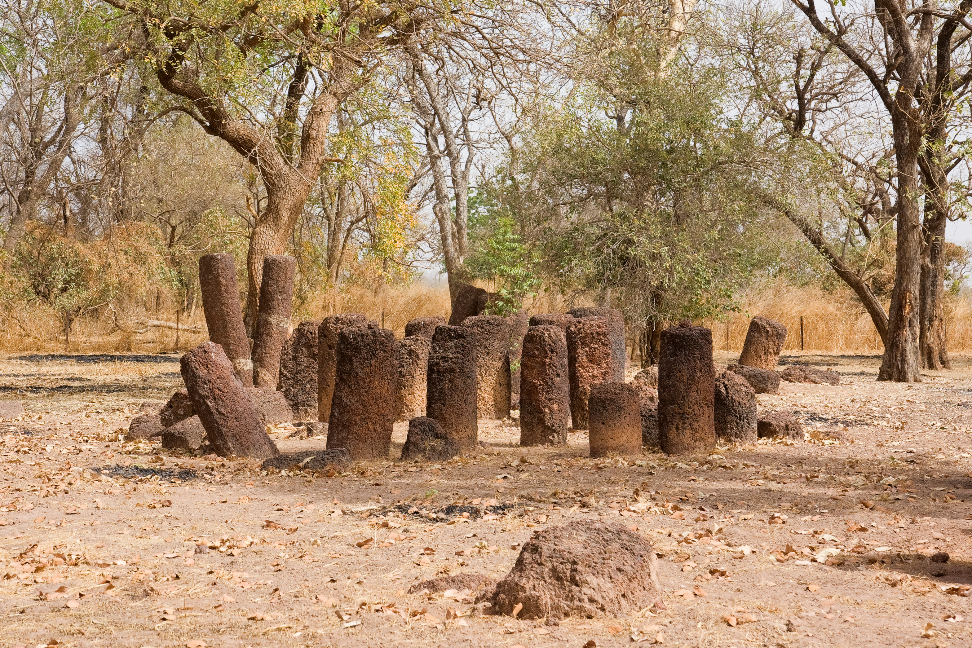 Stone circle in Kerr Batch/The Gambia